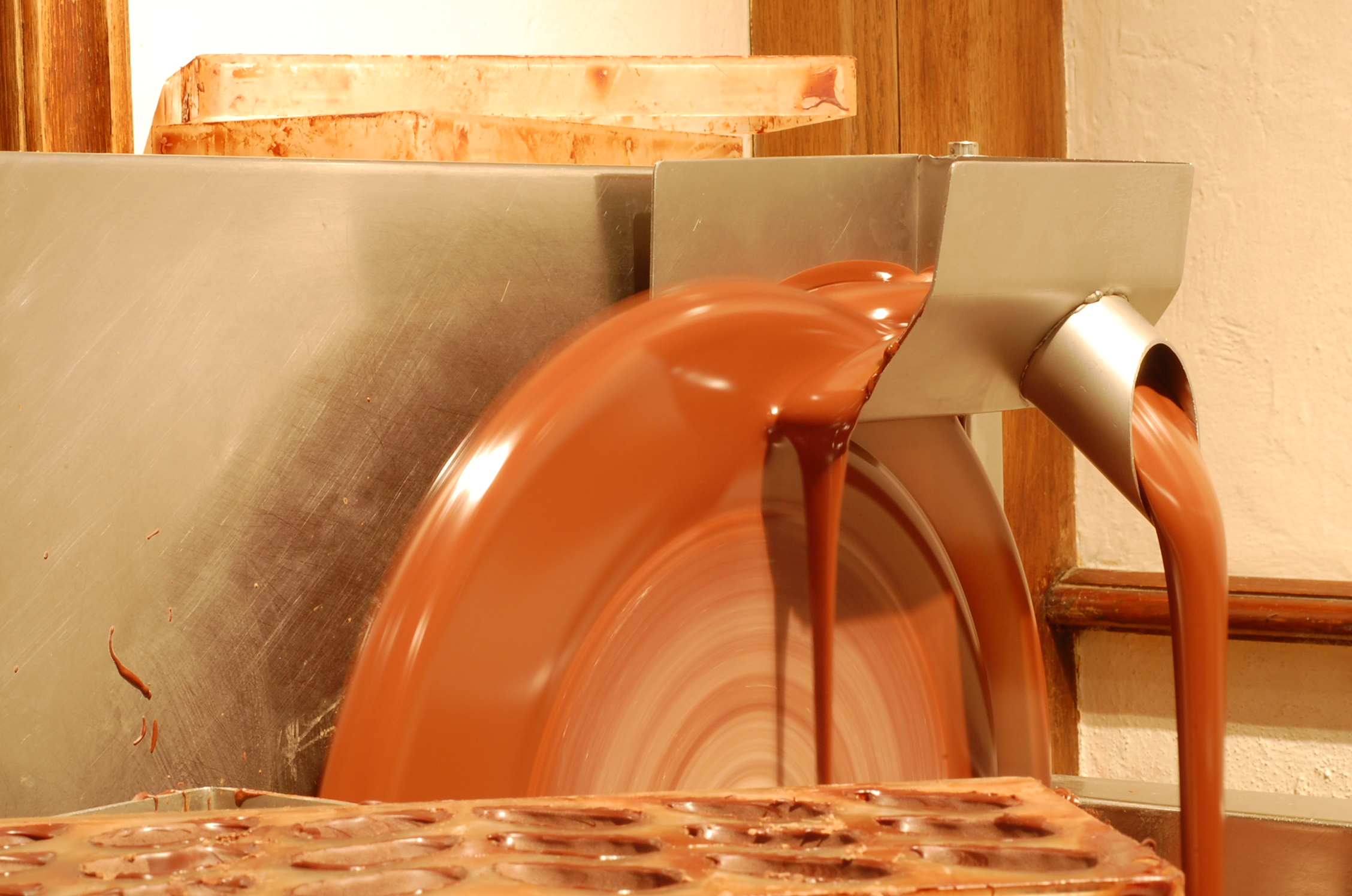 Photo by Musée du Cacao et du Chocolat, used with permission.